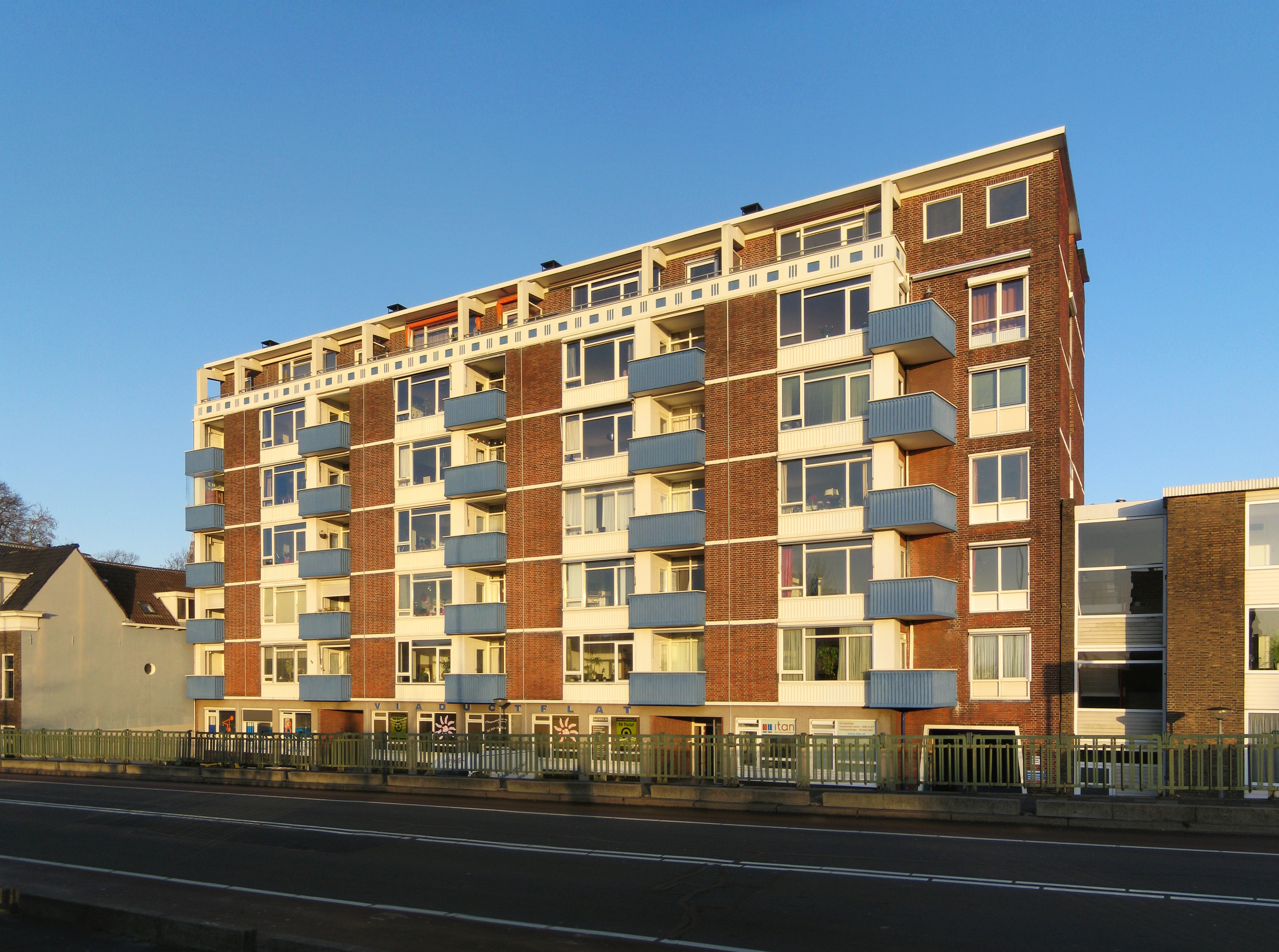 The Viaductflat, an apartment building (1952) in the Dutch city of Groningen.